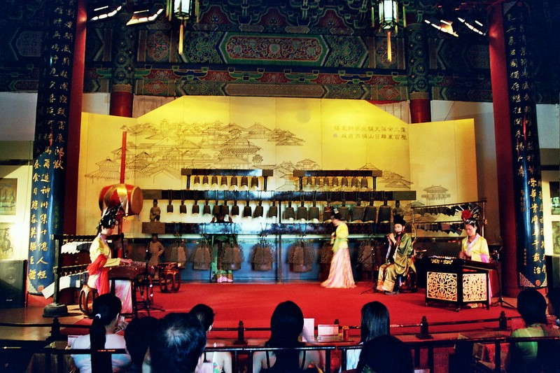 A free traditional music performance given inside the Bell Tower of Xian